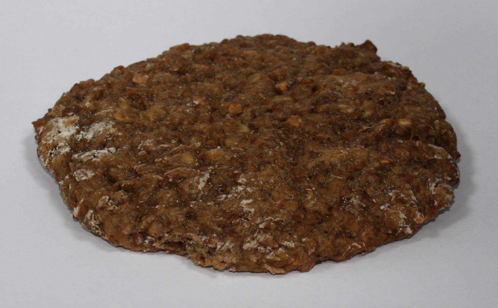 Essene flat bread, 100% sprouted wheat